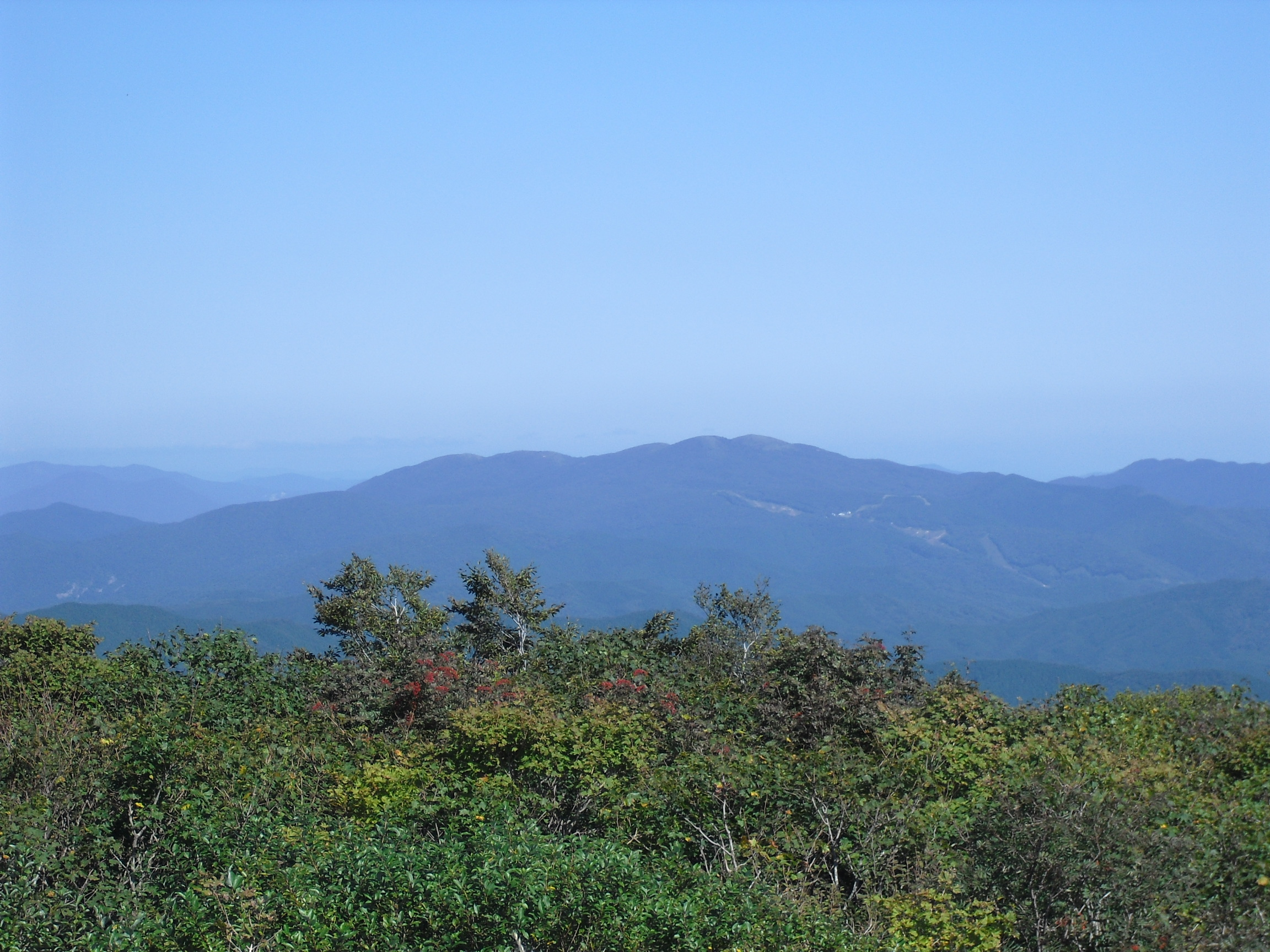 Mount Dogo (Dogo-yama) as seen from the WbS. Taken from Mount Ryuo.